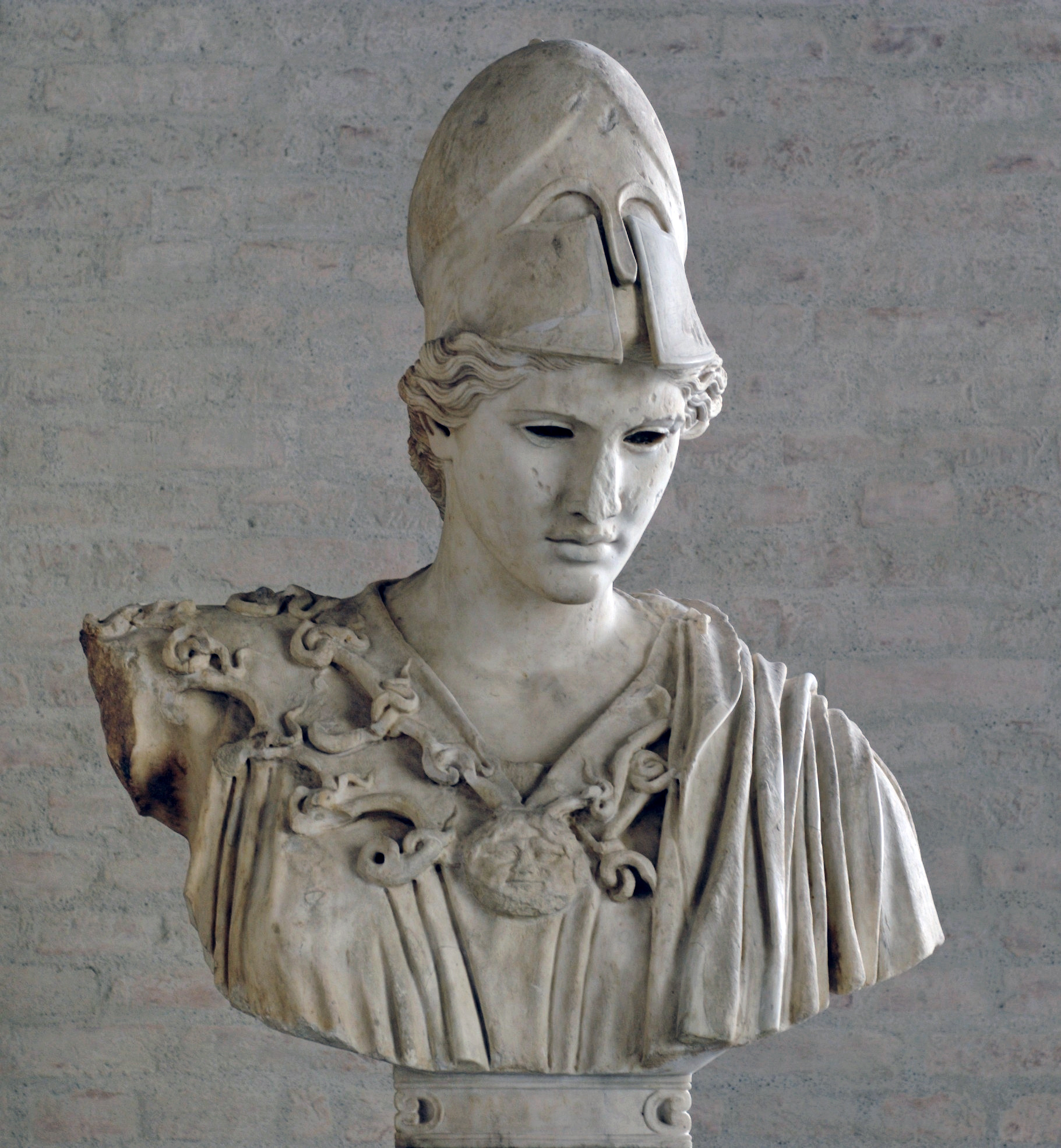 Bust of Athena, type of the “Velletri Pallas” (inlaid eyes are lost). Copy of the 2nd century CE after a votive statue of Kresilas in Athens (ca. 430–420 BC).